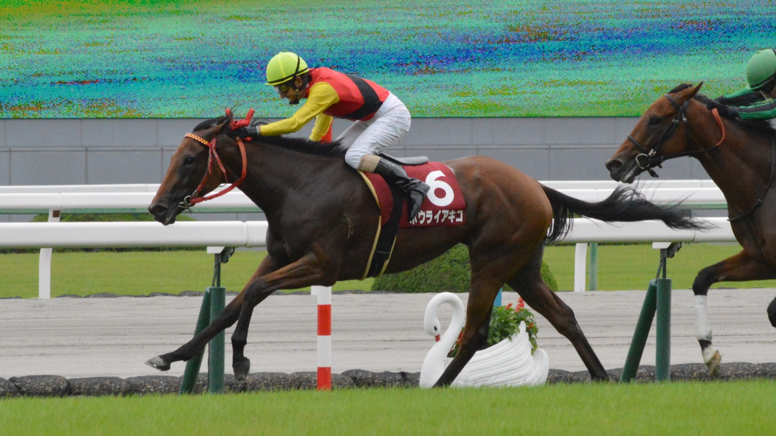 Japanese race horse Horai Akiko at Kyoto racecourse.